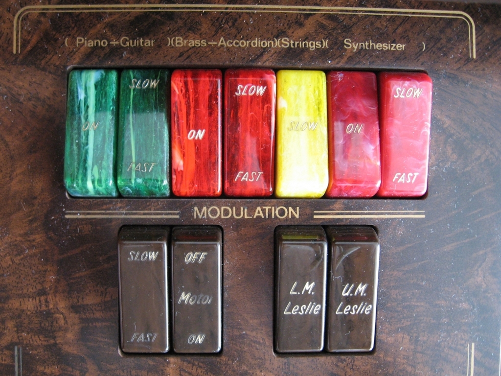 Farfisa Pergamon "Modulation"